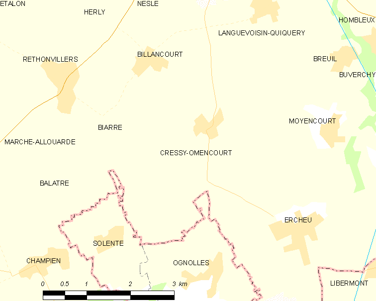 Map of French municipality Cressy-Omencourt